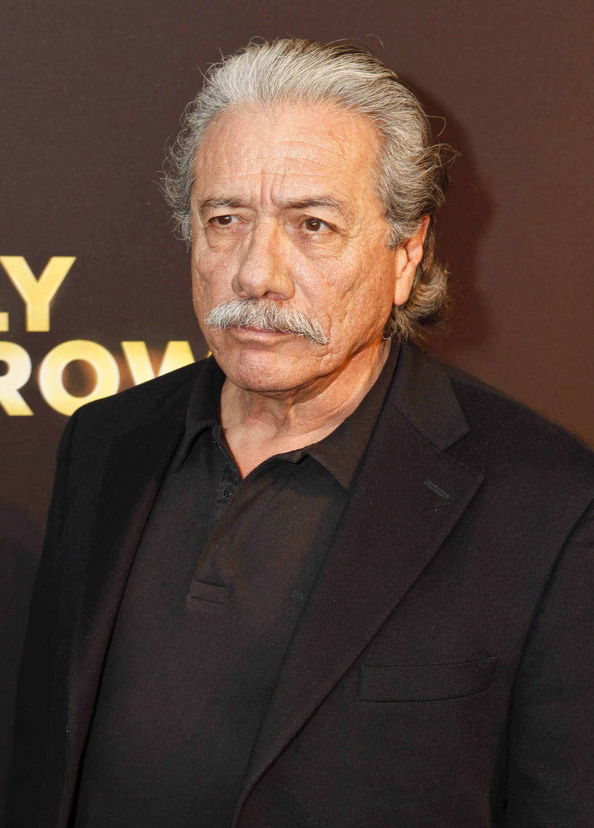 FILLY BROWN Red Carpet at Regal Cinemas South Beach, April 9, 2013